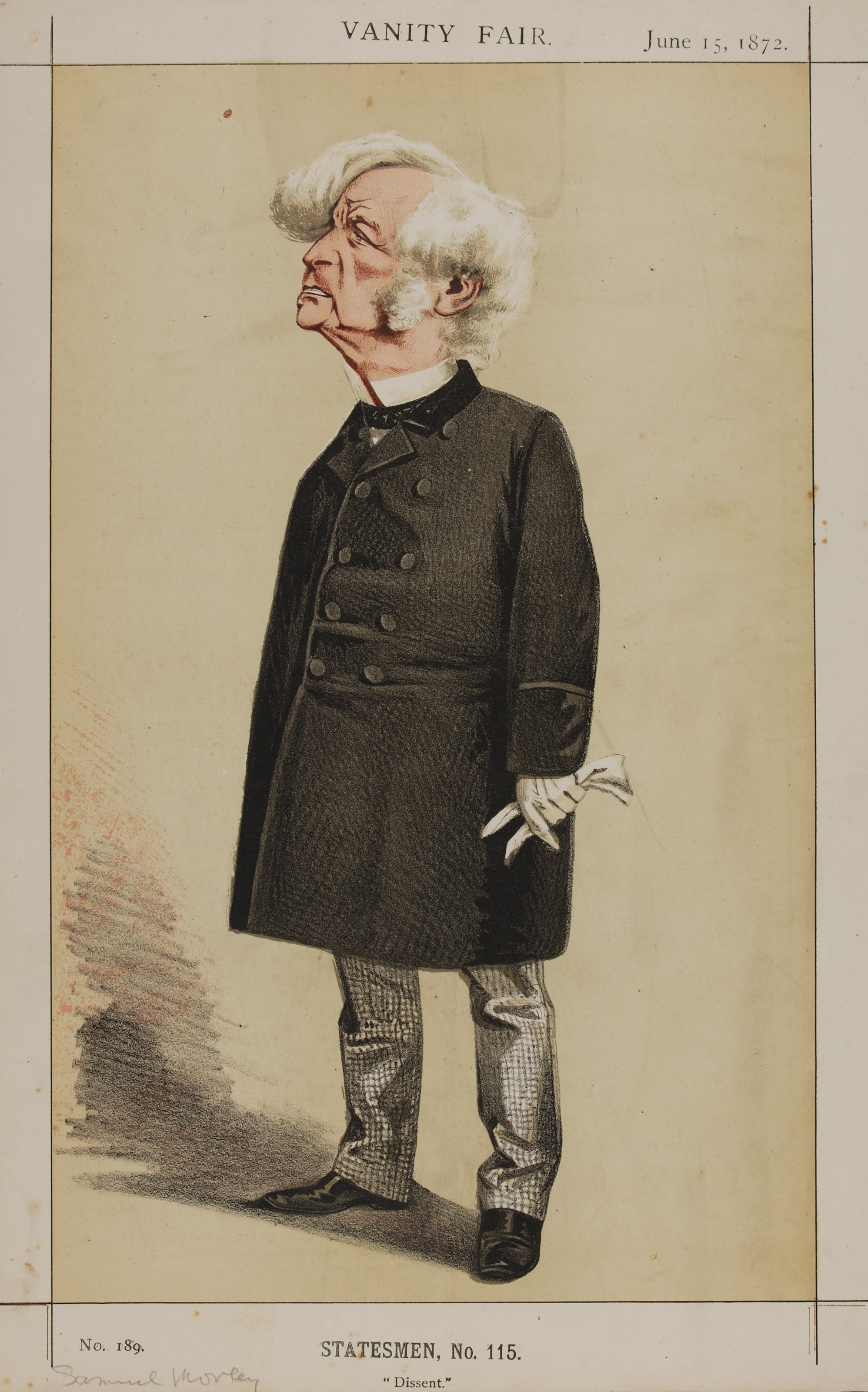 Statesmen No.115: Caricature of Mr S Morley MP. Caption reads: "Dissent"